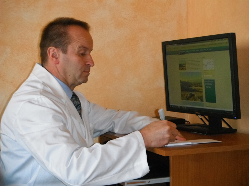 Dr Dragan Djokanovic